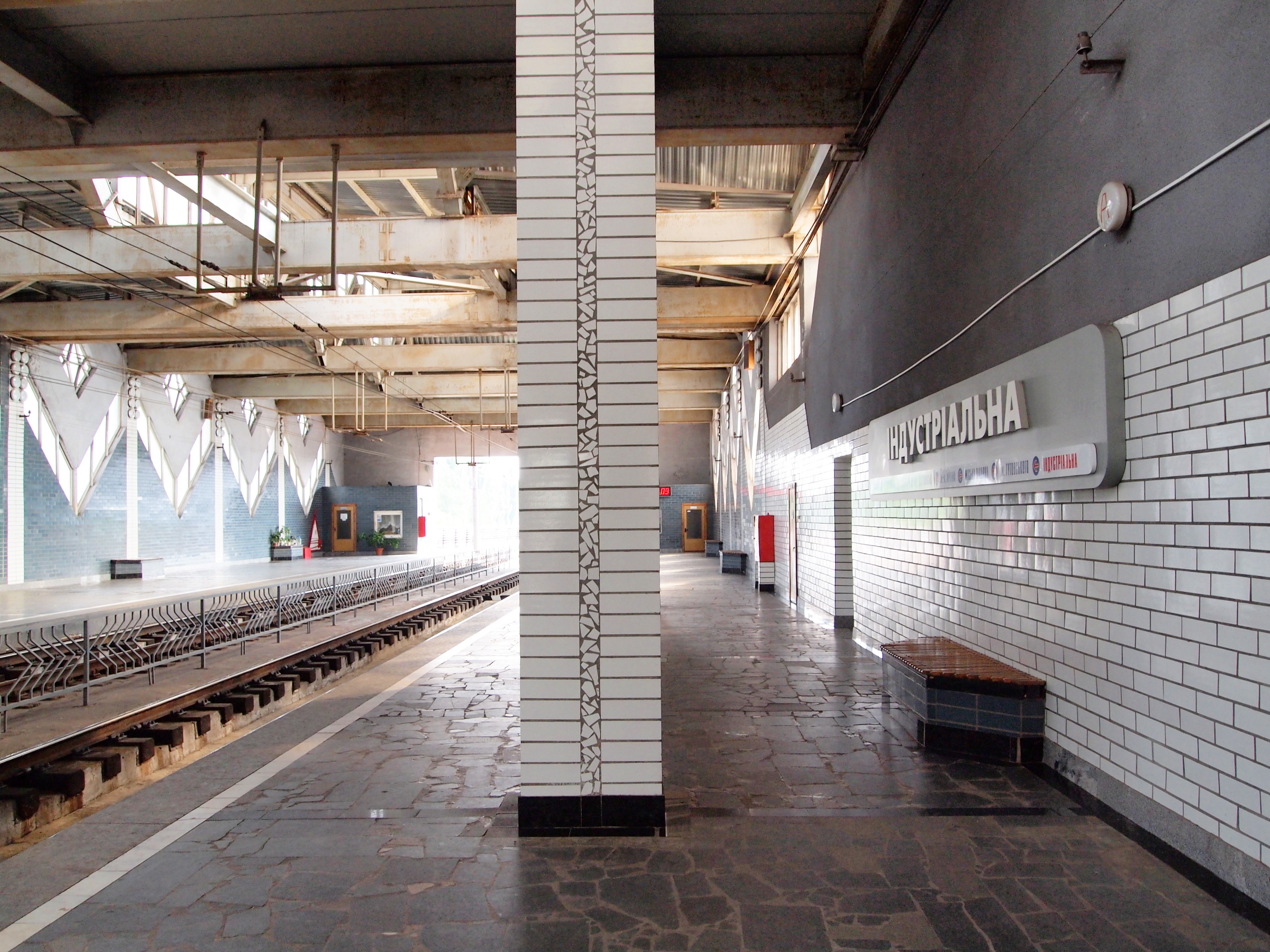 Industrialna metro station in Kryvyi Rih. This photograph was taken with an Olympus E-PL1